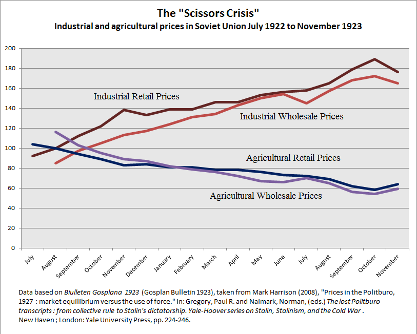 Graph illustrating the Scissors Crisis - wholesale and retail industrial and agricultural prices in Soviet Union 1922/3